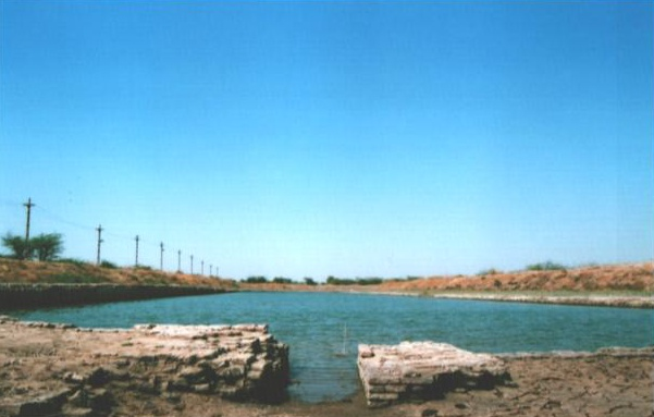 dock with canal in Lothal (India)